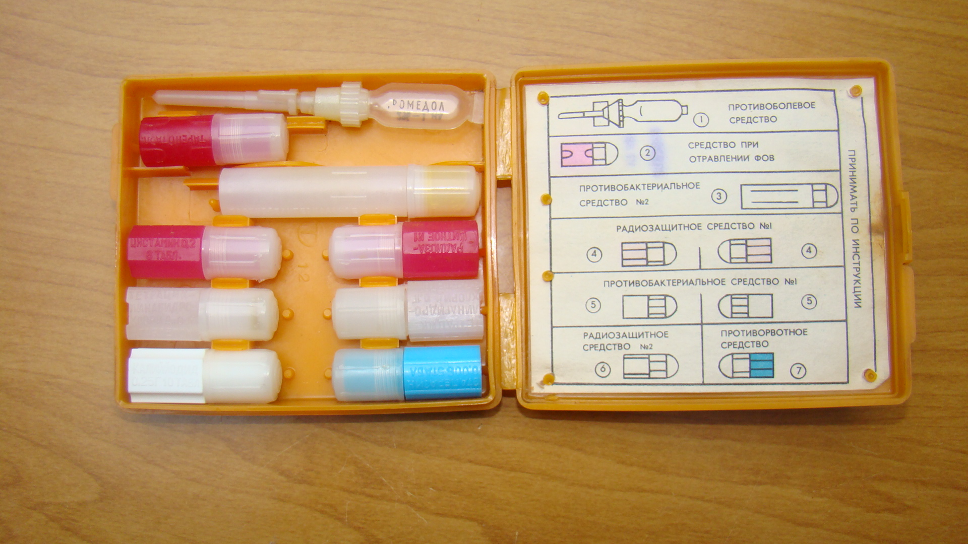 RUSSIAN INDIVIDUAL FIRST AID KIT AI-2 inside